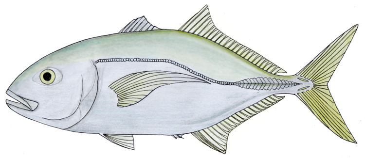 Hand drawn and coloured picture of the yellow jack, Carangoides bartholomaei. Morphology based on diagram in Carpenter et al 2003, and various photographs